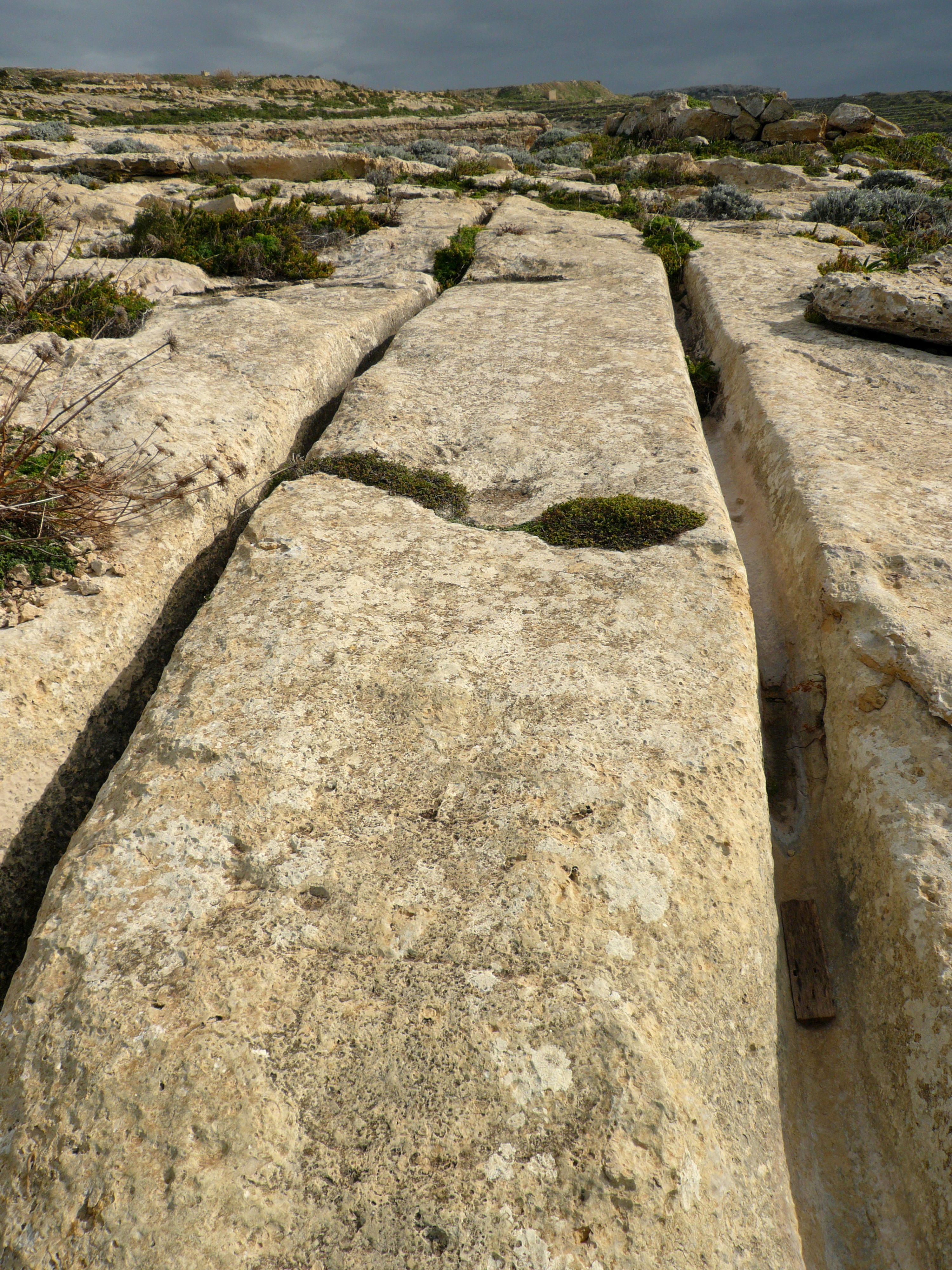 So-called cart-ruts near Dwejra point, Gozo (Malta)